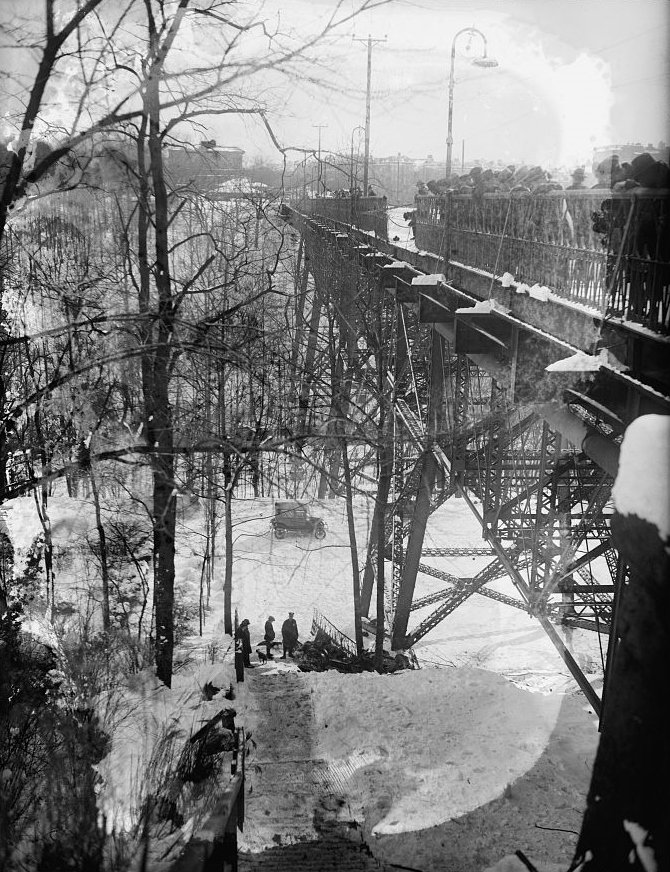 Auto wreck after 70 ft. drop from Calvert St. Bridge, [Washington, D.C.], 2/12/26